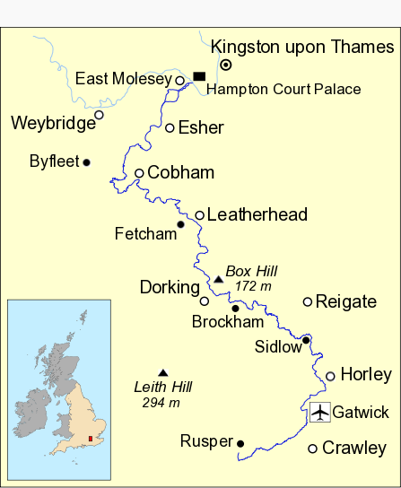 Map of River Mole in south east England showing part of the River Thames. Data from Open Street Maps.